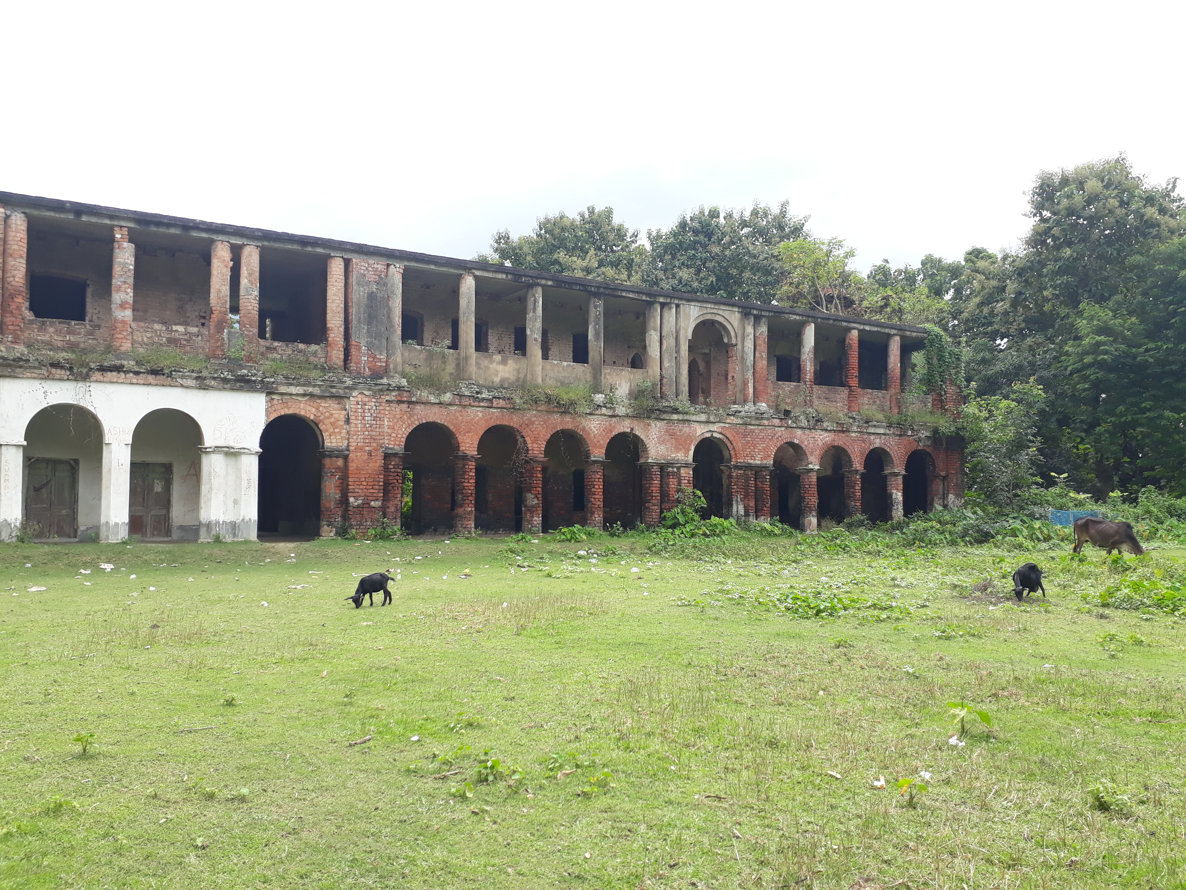 Neel (Indigo) Kuthi at Mongalganj, near Bangaon, North 24 Parganas.